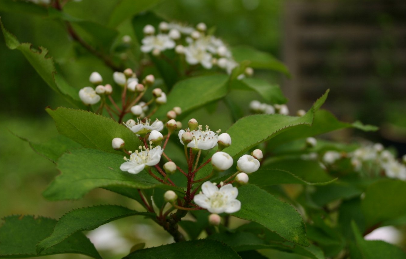 Photinia villosa: Flowers and foliage